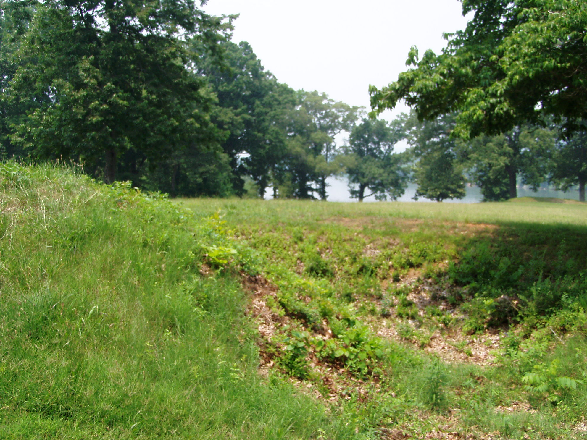 Earthen Ramparts of Fort Donelson National Battlefield, Stop #2